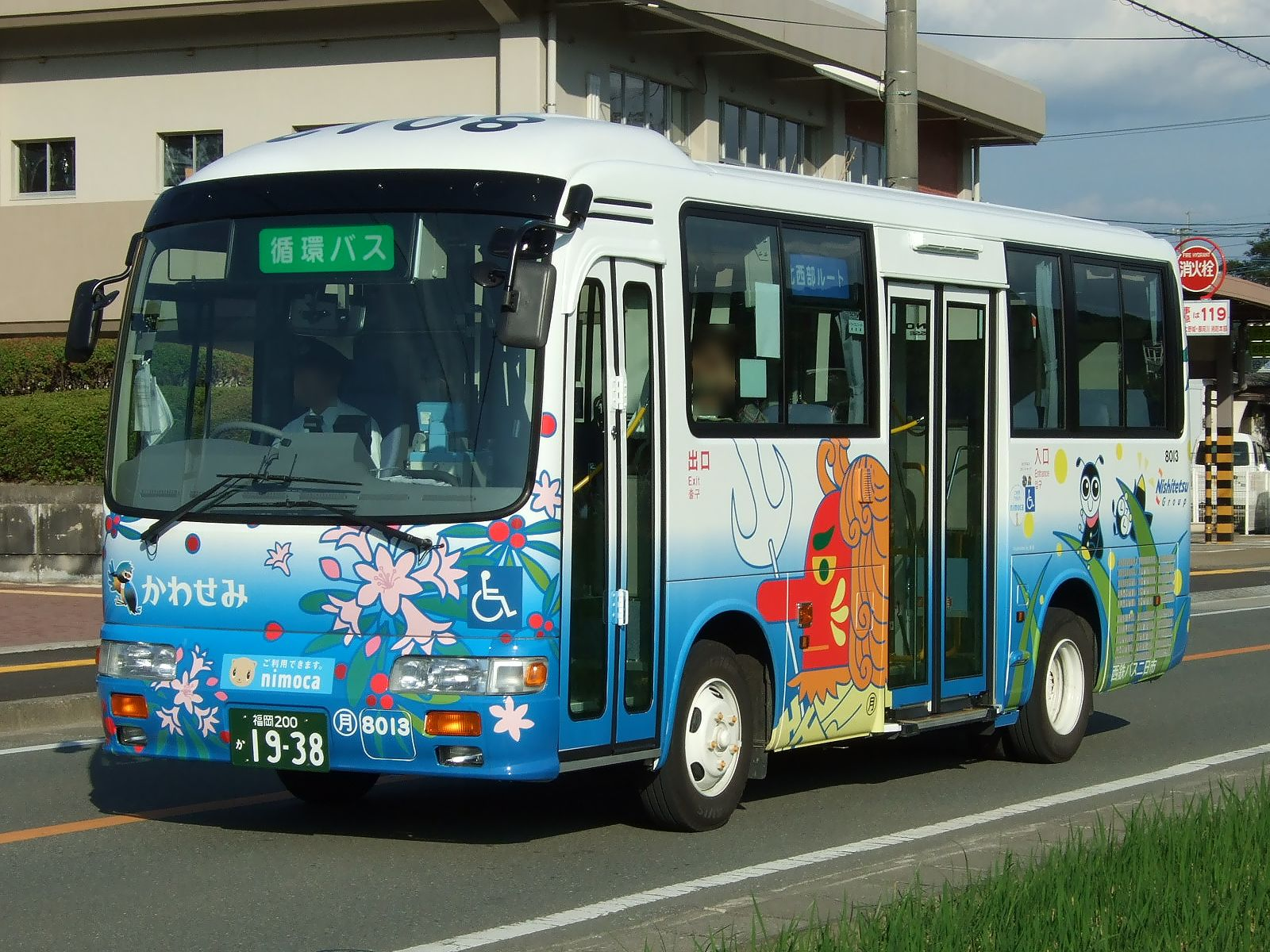 Nakagawa Town community bus “Kawasemi”